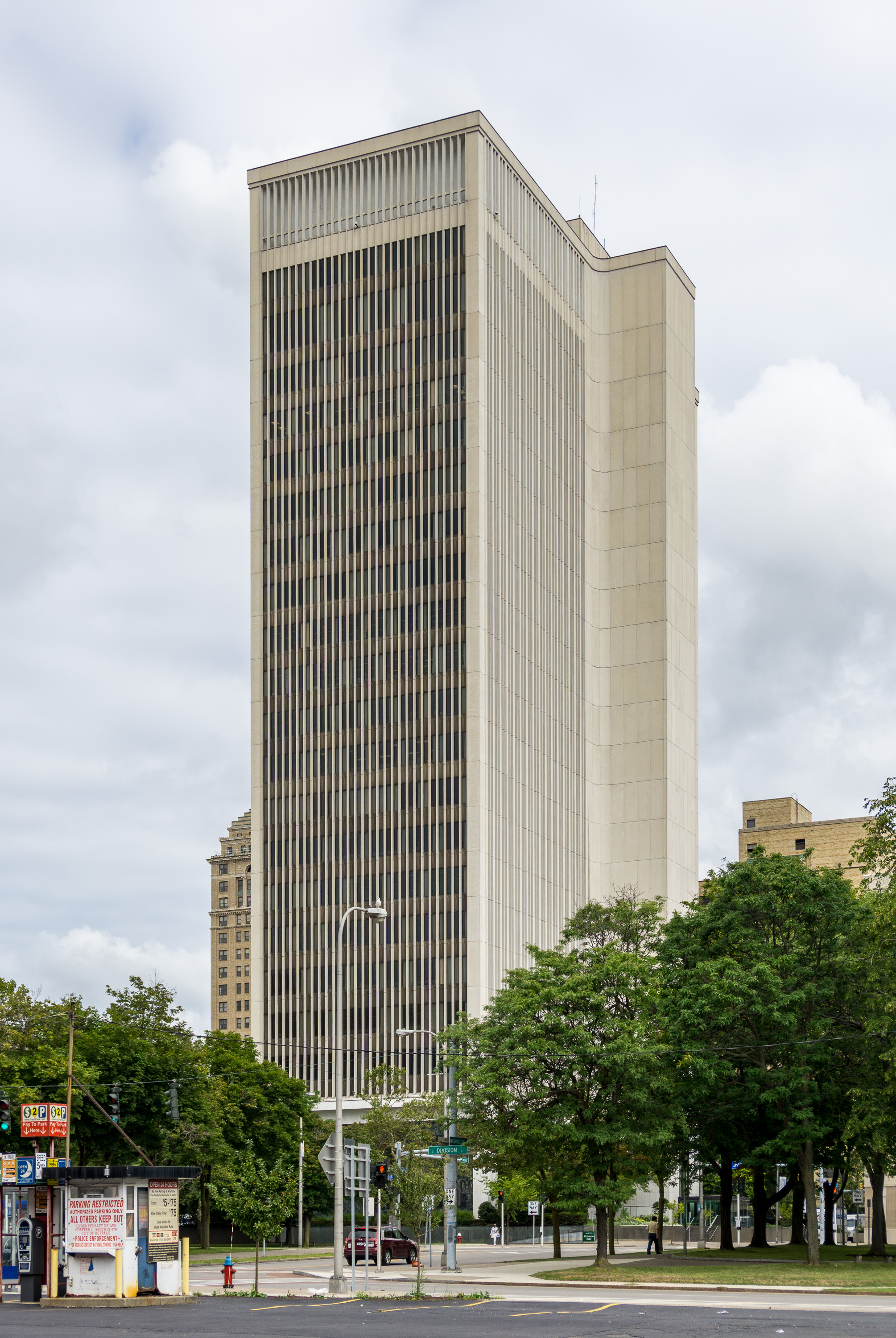 One M&T Plaza, Buffalo, New York. 1966, Minoru Yamasaki.